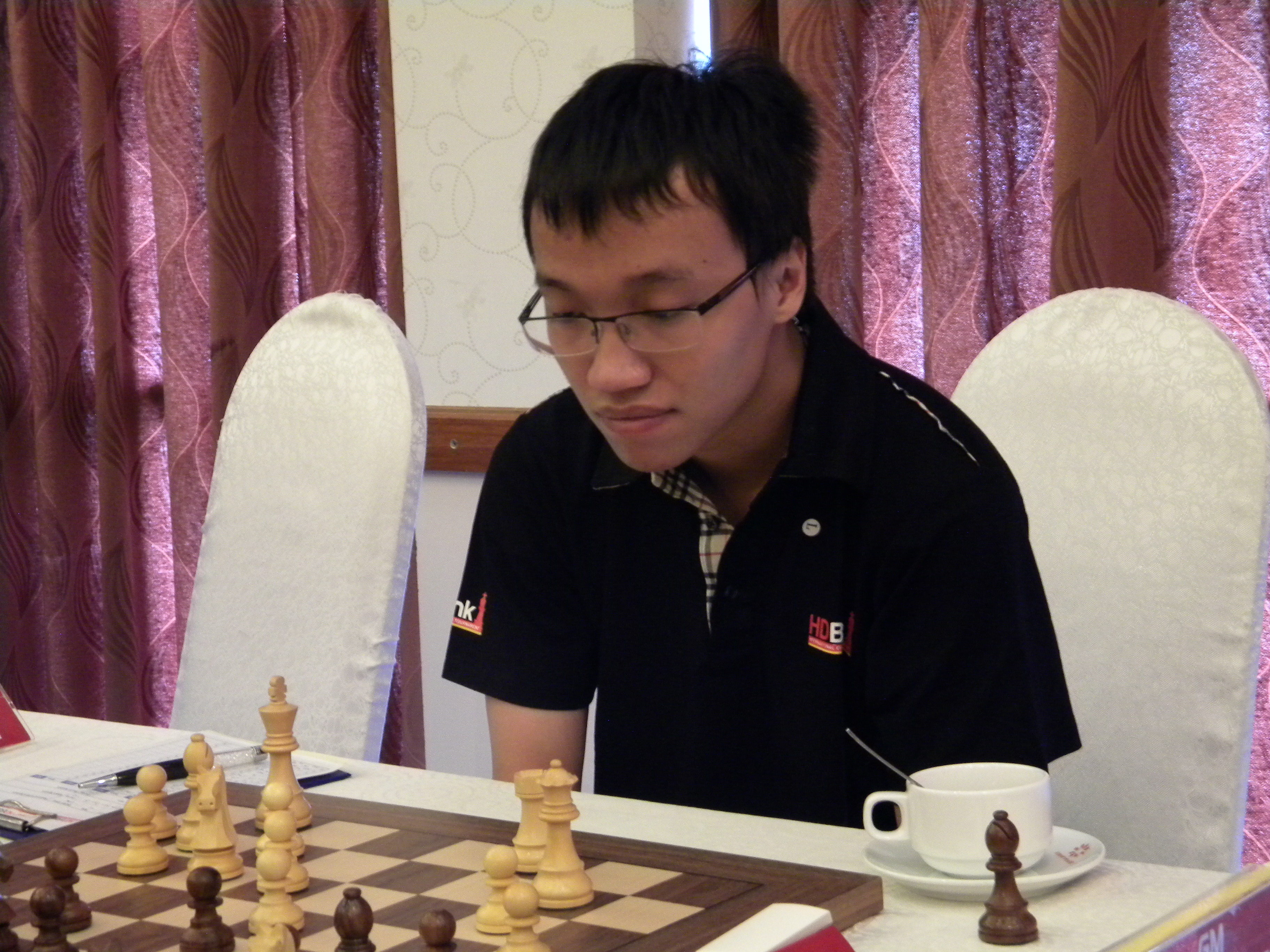 Nguyen Ngoc Truong Son, round 7 HDBank chess tournament 2016